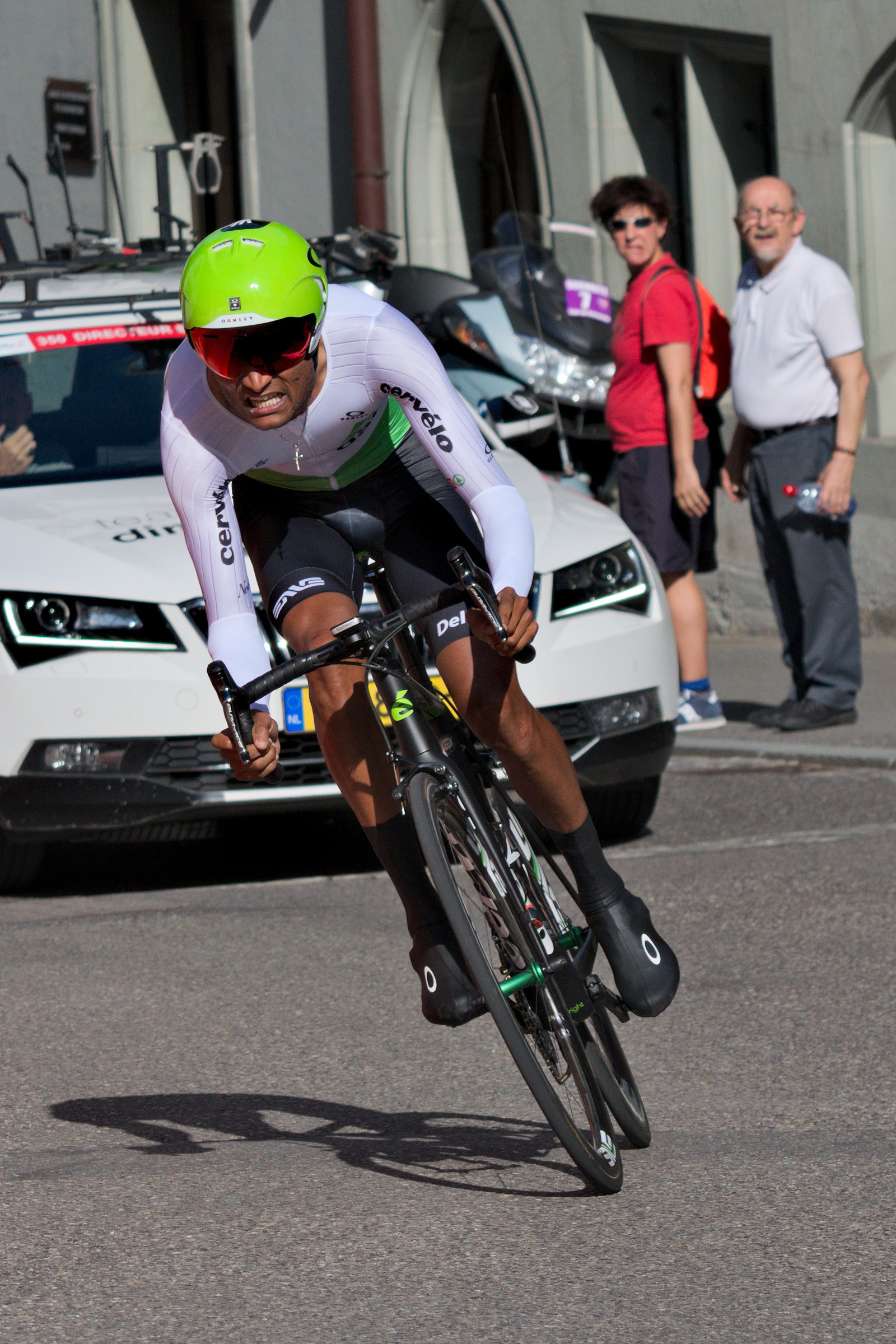 Amanuel Gebrezgabihier at the Prologue (Fribourg) of 2018 Tour de Romandie (cropped picture)